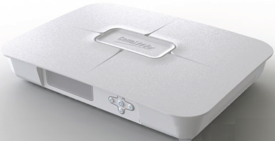 Artificial Intelligence Shape Recognition Technology (SRT) Unit for People Counting